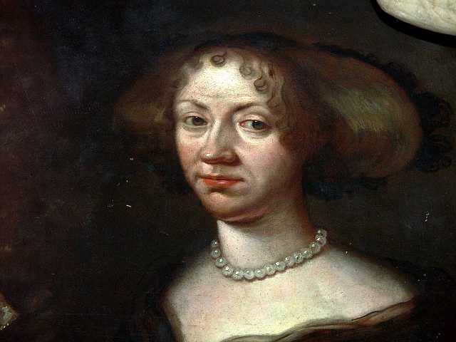 Detail of painting in Holmens Kirke in Copenhagen showing Abel Cathrine von der Wisch